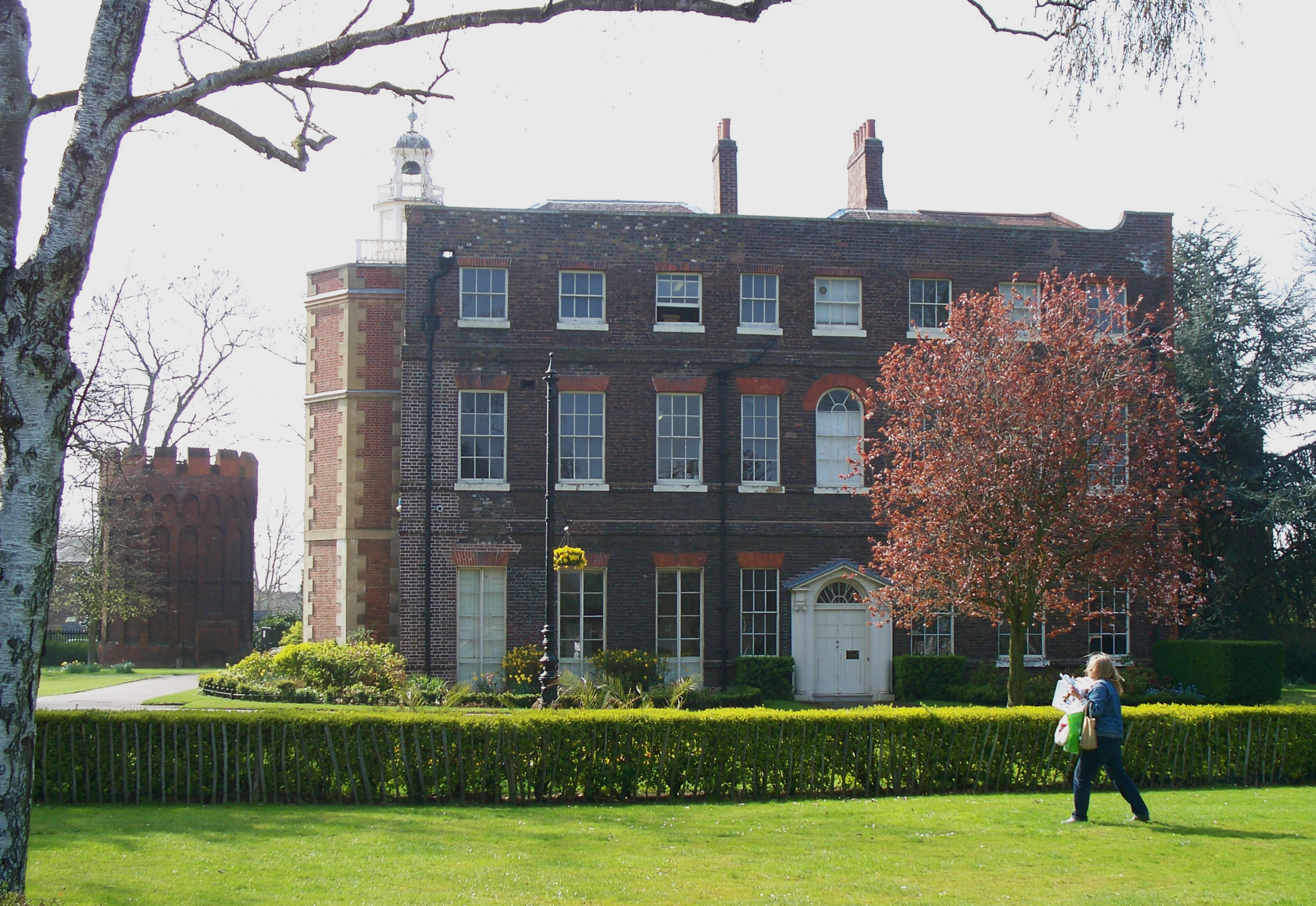 East side of Bruce Castle, London. Photograph taken in a public location in the UK of a building on permanent public display, and exempt from copyright under Section 62 of the Copyright Designs & Patents Act 1988 ("it is not an infringement of copyright to film, photograph, broadcast or make a graphic image of a building, sculpture, models for buildings or work of artistic craftsmanship if that work is permanently situated in a public place or in premises open to the public")